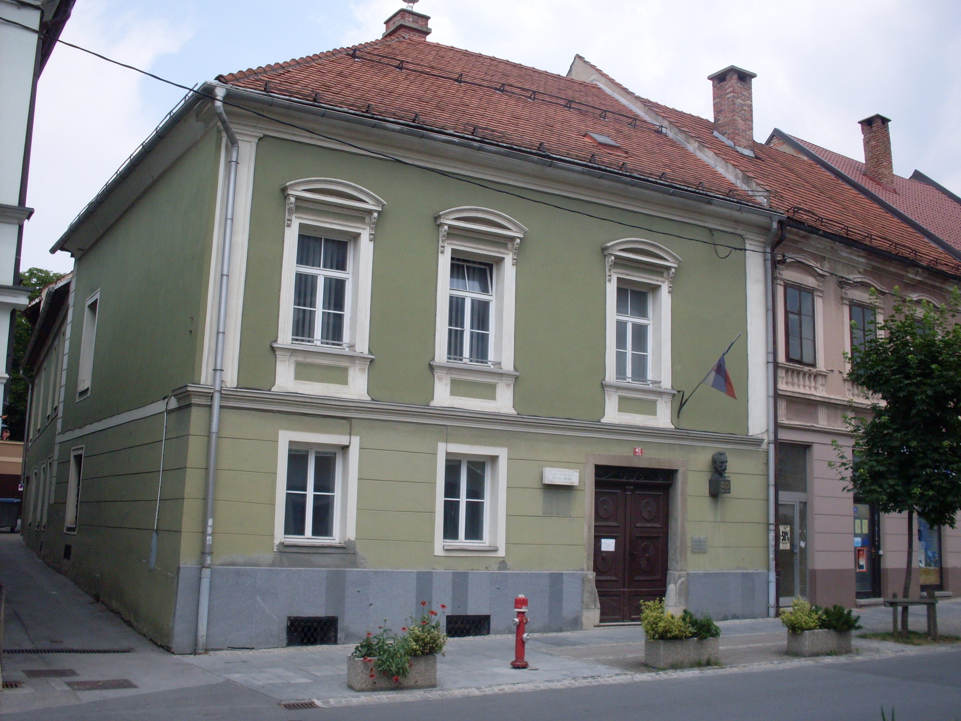 Birth house of Hugo Wolf at Slovenj Gradec's Main square (its current address is Glavni trg 40)